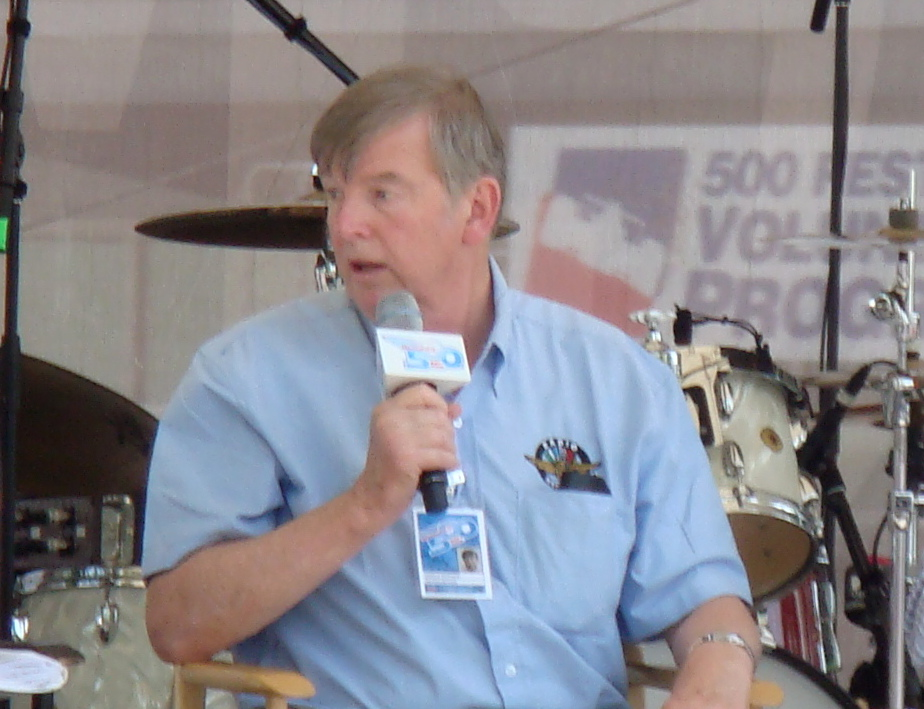 Indianapolis Motor Speedway historian Donald Davidson at IMS on Pole Day 2012